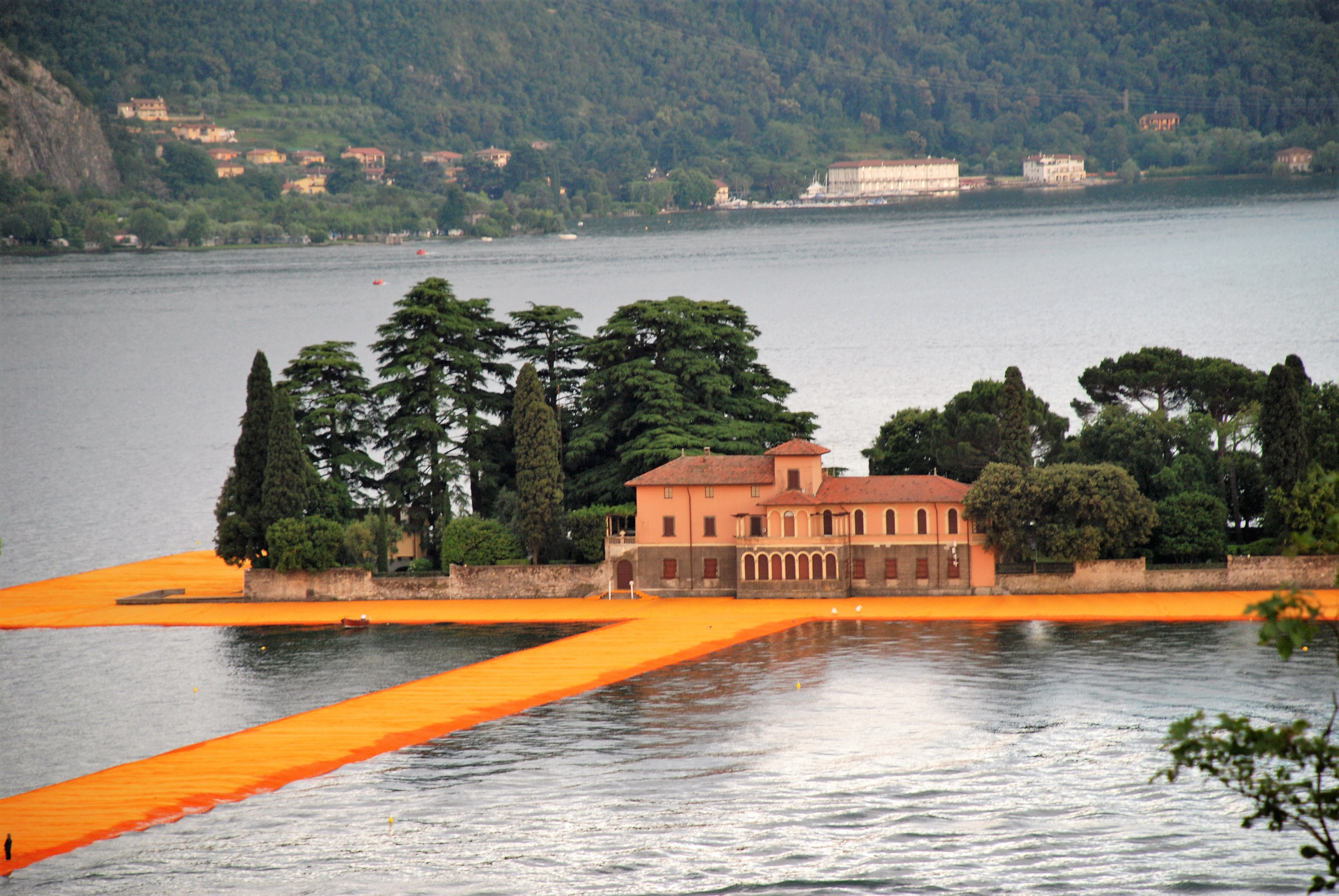 Christo, Floating Pears, Lago d'Iseo, 2016